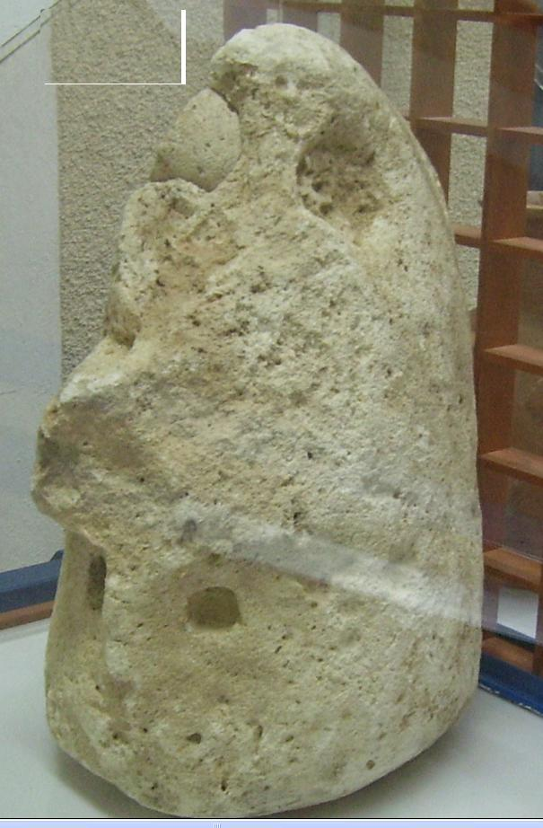 Head of warrior with horned helmet, from Bulzi (Sardinia) . Sanna Museum, Sassari.